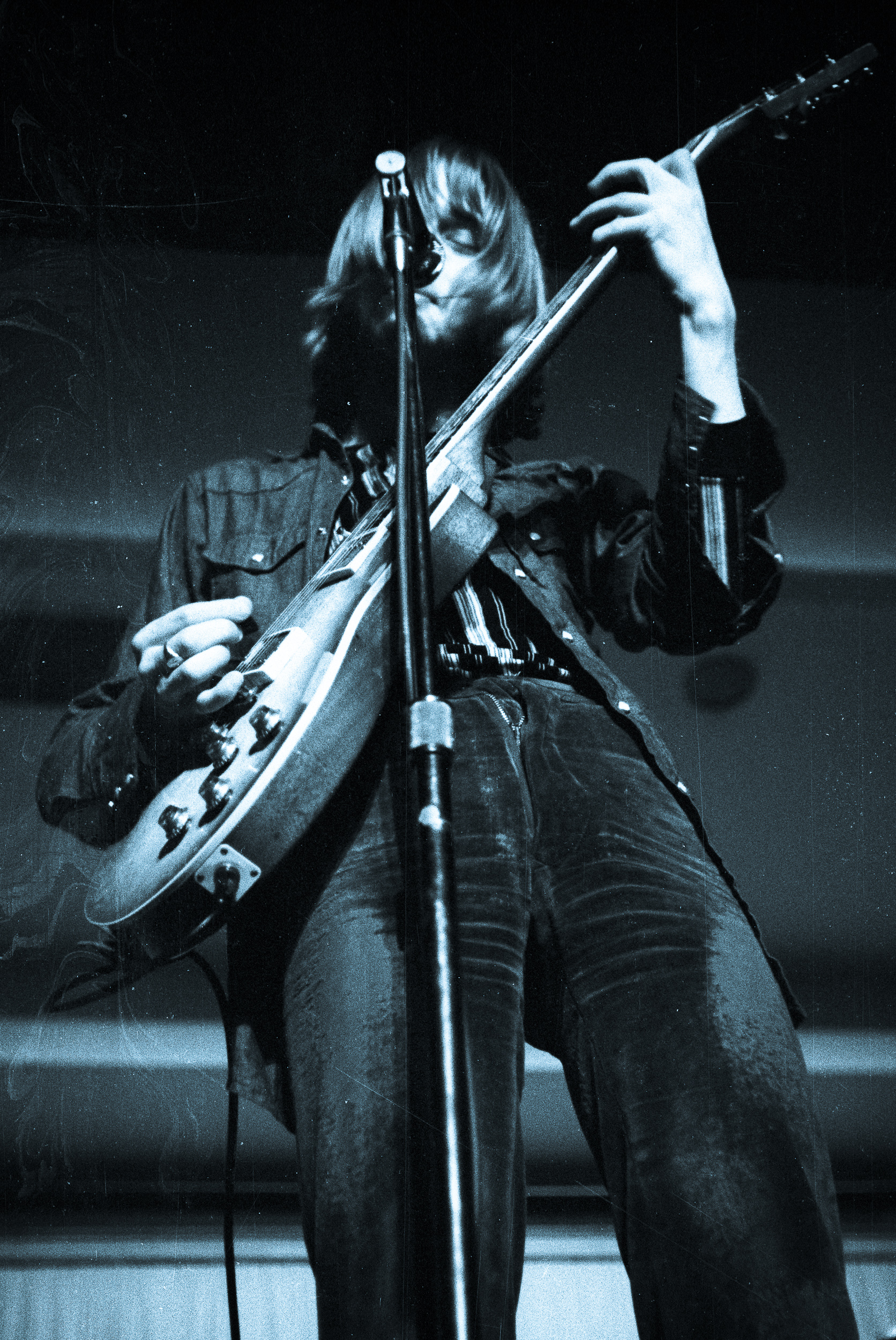 Danny Kirwan, Fleetwood Mac, March 18, 1970 Niedersachsenhalle, Hannover, Germany, The Touring Band: Mick Fleetwood - Percussion, Peter Green - Lead Vocals/Guitar/Harmonica (left band in May), John McVie - Bass Guitar, Jeremy Spencer - Vocals/Guitar, Danny Kirwan - Vocals/Guitar